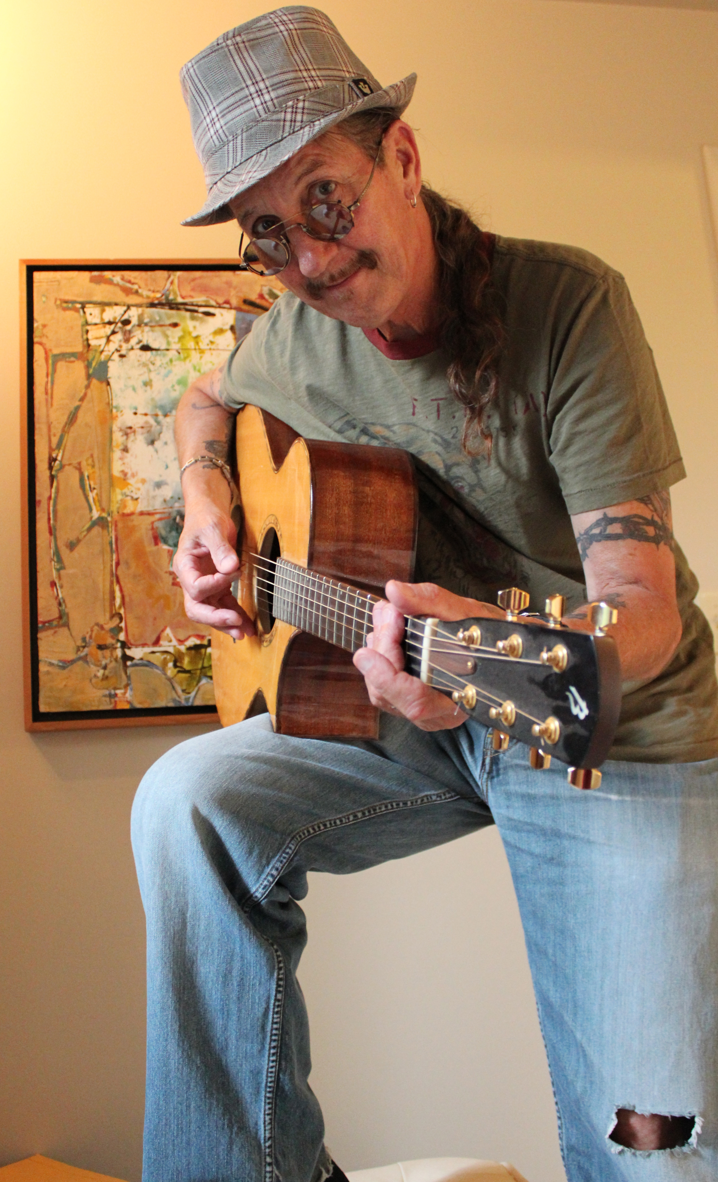 Richard Fagan photographed in the White Room with Todd Cerney's guitar and Gloria Newton's 2006 painting "Natural Essence" in the background.